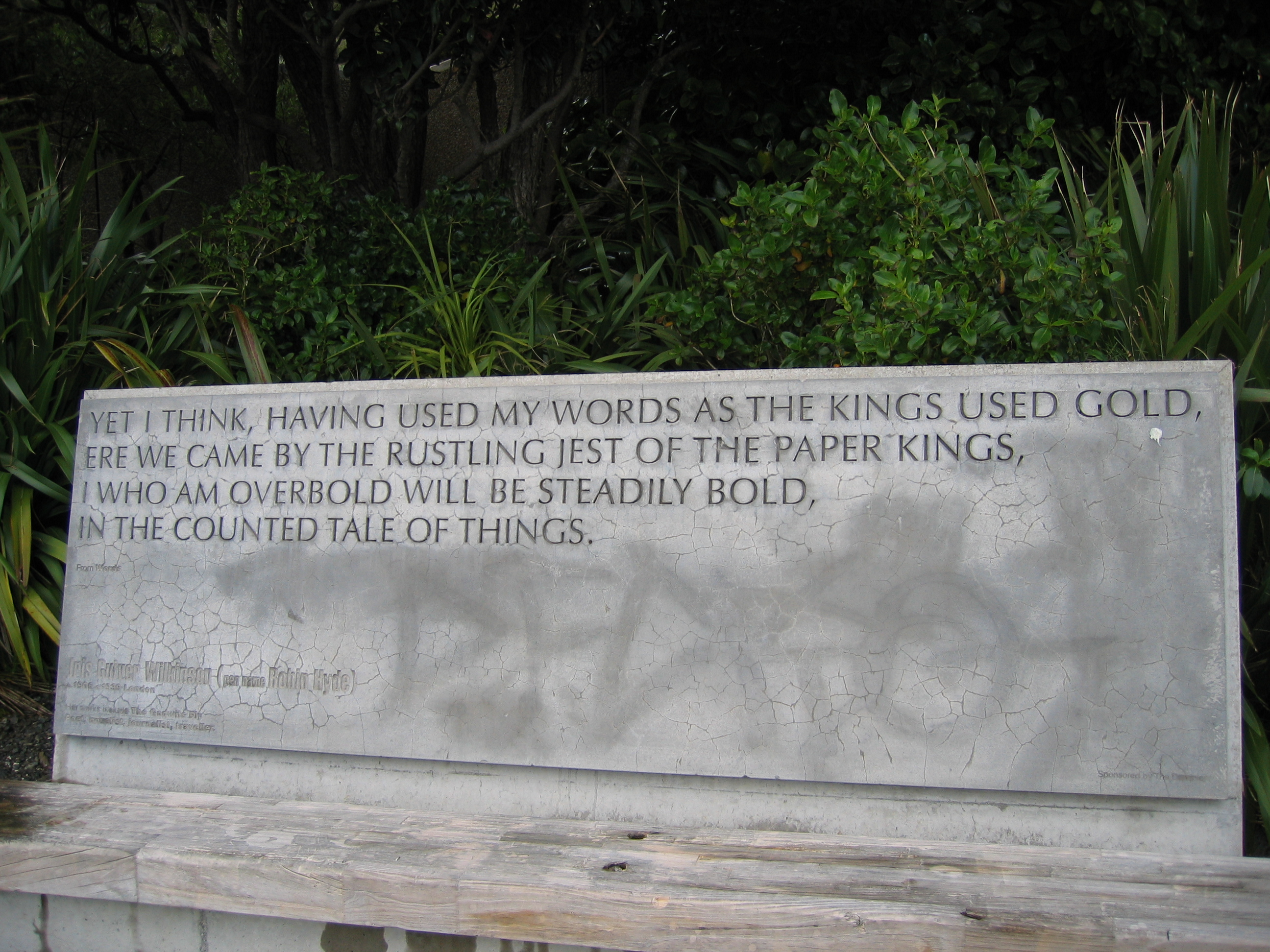 Concrete sculpture of Robin Hyde's words, part of the Wellington Writers' Walk in Wellington, New Zealand. This sculpture is installed next to Te Papa. The engraved words are